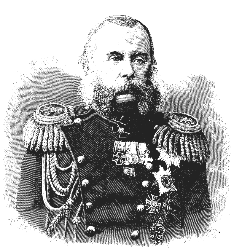 Baranov, Eduard Trofimovich